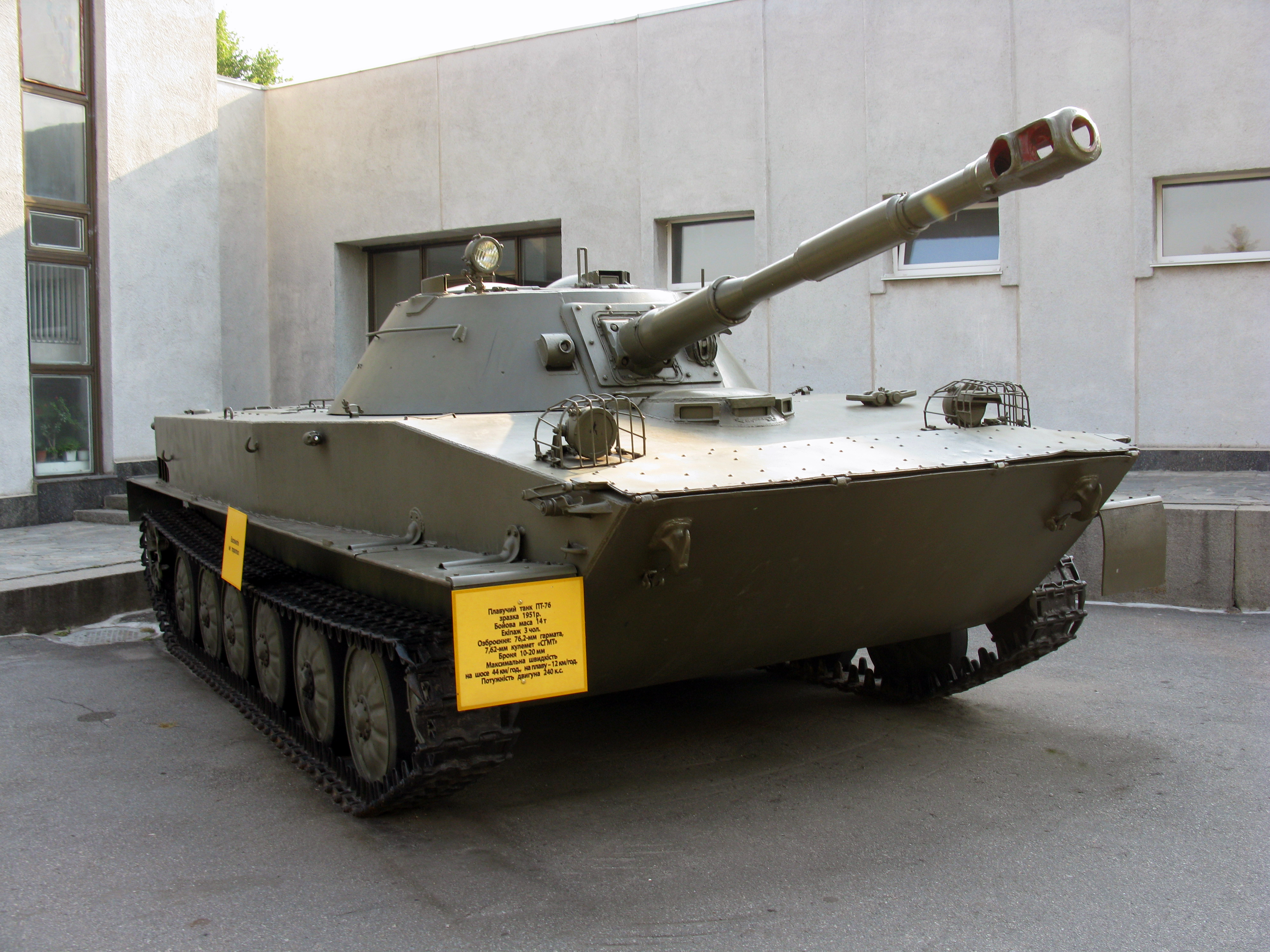 PT-76 at the National Museum of the Great Patriotic War in Kiev, Ukraine. Early model, with lower hull, but modrnized D-56TM gun.